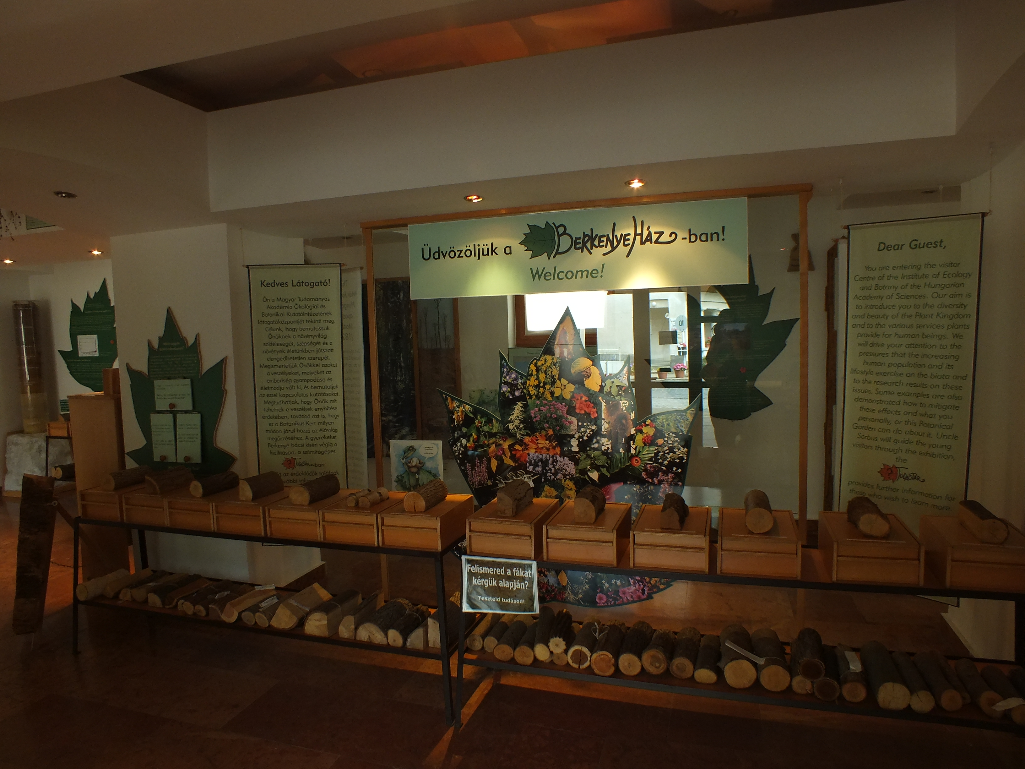 Botanical creative house